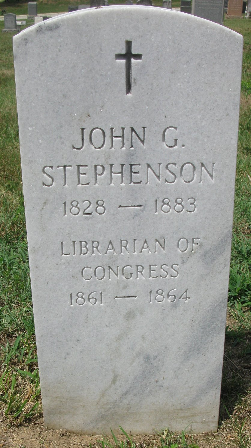 Headstone of John Gould Stephenson, Librarian of Congress. Headstone is in the Congressional Cemetery in Washington DC.